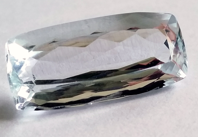 Faceted Aquamarine, 13.24ct, Brazil